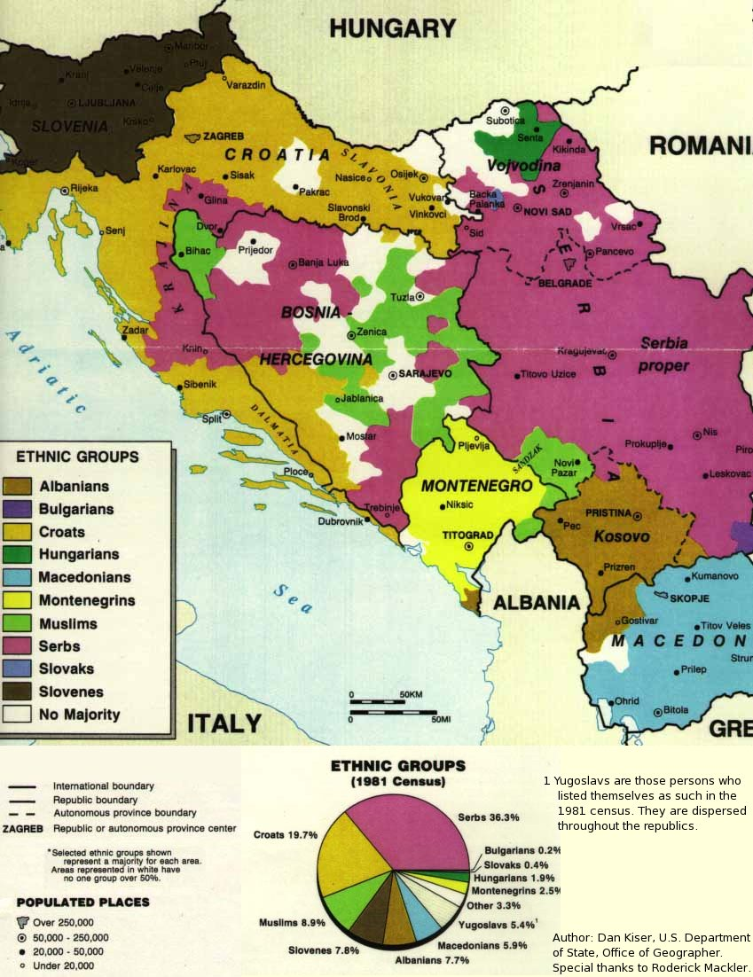 Ethnic map of Yugoslavia based on 1981 census data.